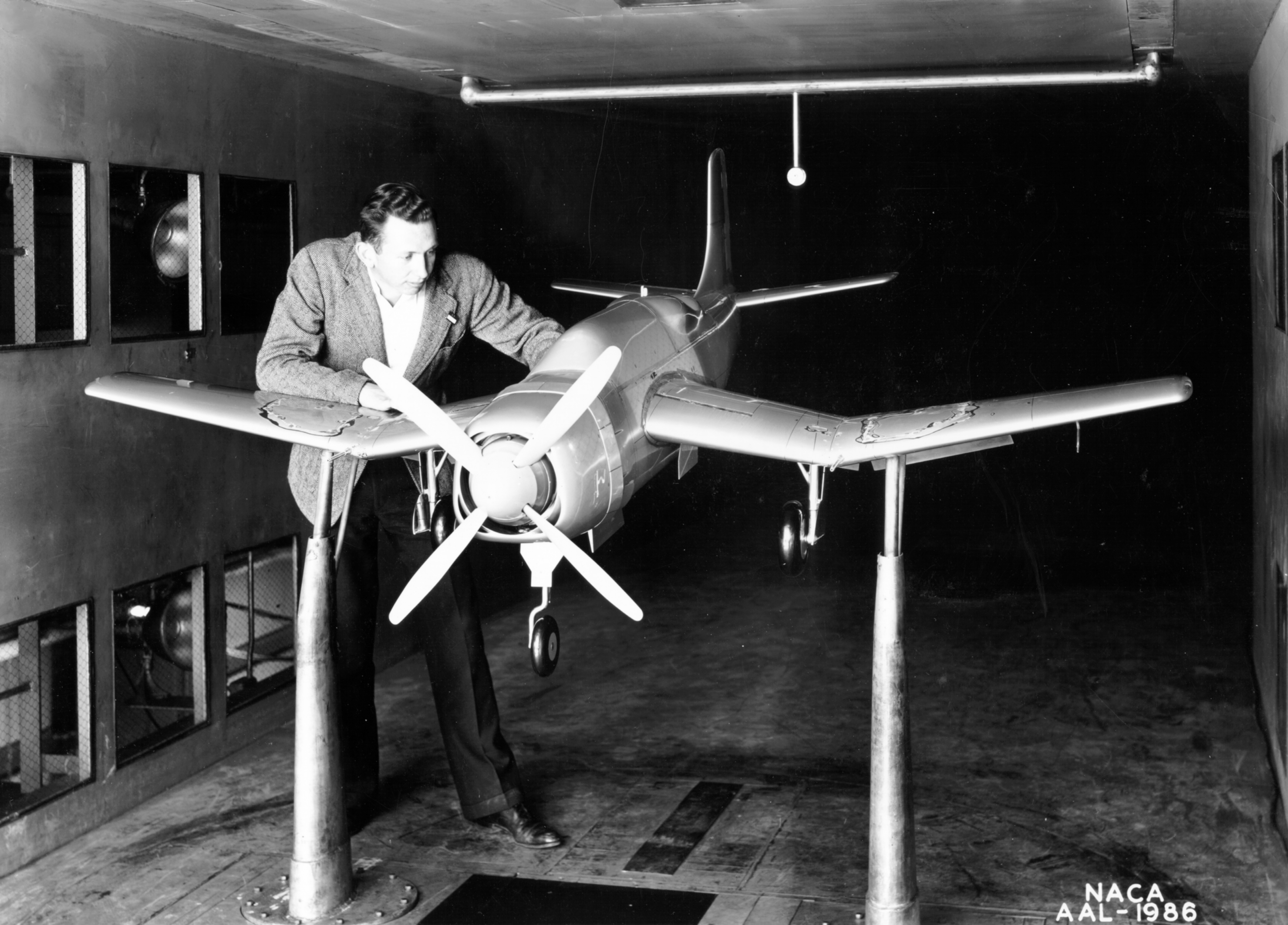 A scale model of the Douglas SB2D Destroyer at the wind tunnel of the Ames Research Center, Moffett Field, California (USA), on 1 April 1942. Only two XSB2Ds were built plus 28 single seat versions, redesignated BTD-1.